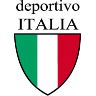 Logo of futbol club Deportivo Italia in 1968. Created personally by Mino D'Ambrosio, who died in 1979. He was my relative and I know that he never did a copywright of the logo.